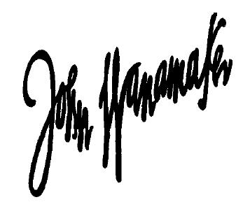 Wanamaker's, The defunct company's logo